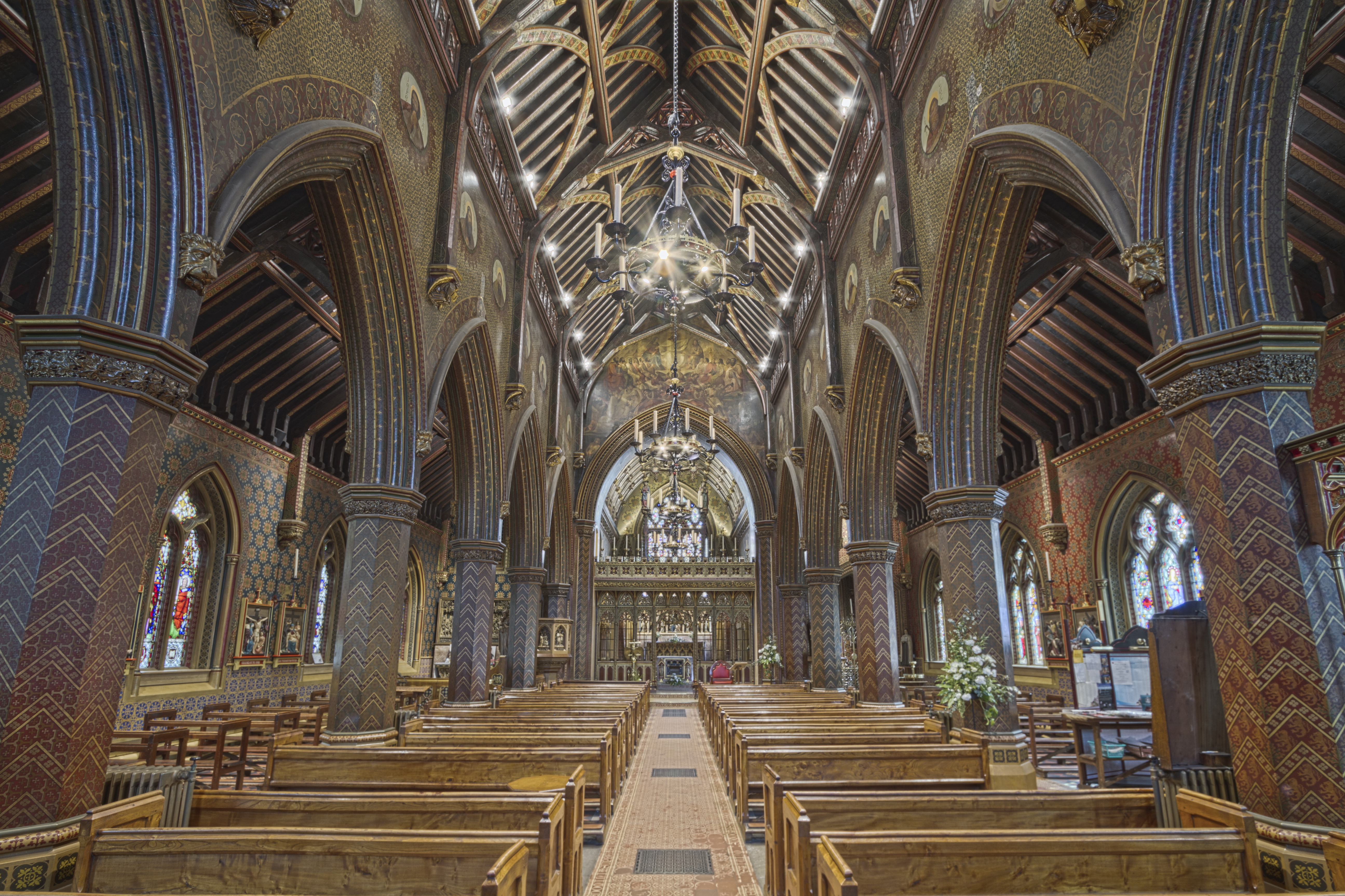 Inside the Roman Catholic church of St Giles, Cheadle, Staffordshire, looking southeast to the chancel screen